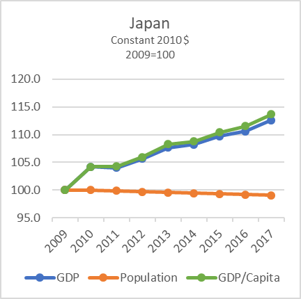 Relative growth of per capita GDP, population, and total GDP for Japan for the period 2009 - 17. Each line on the chart starts at 100 for the year 2009, so that the percentage change of each over time can be read directly. For example, the chart shows that change in per capita GDP over the period 2009 - 2017 was almost 15%.